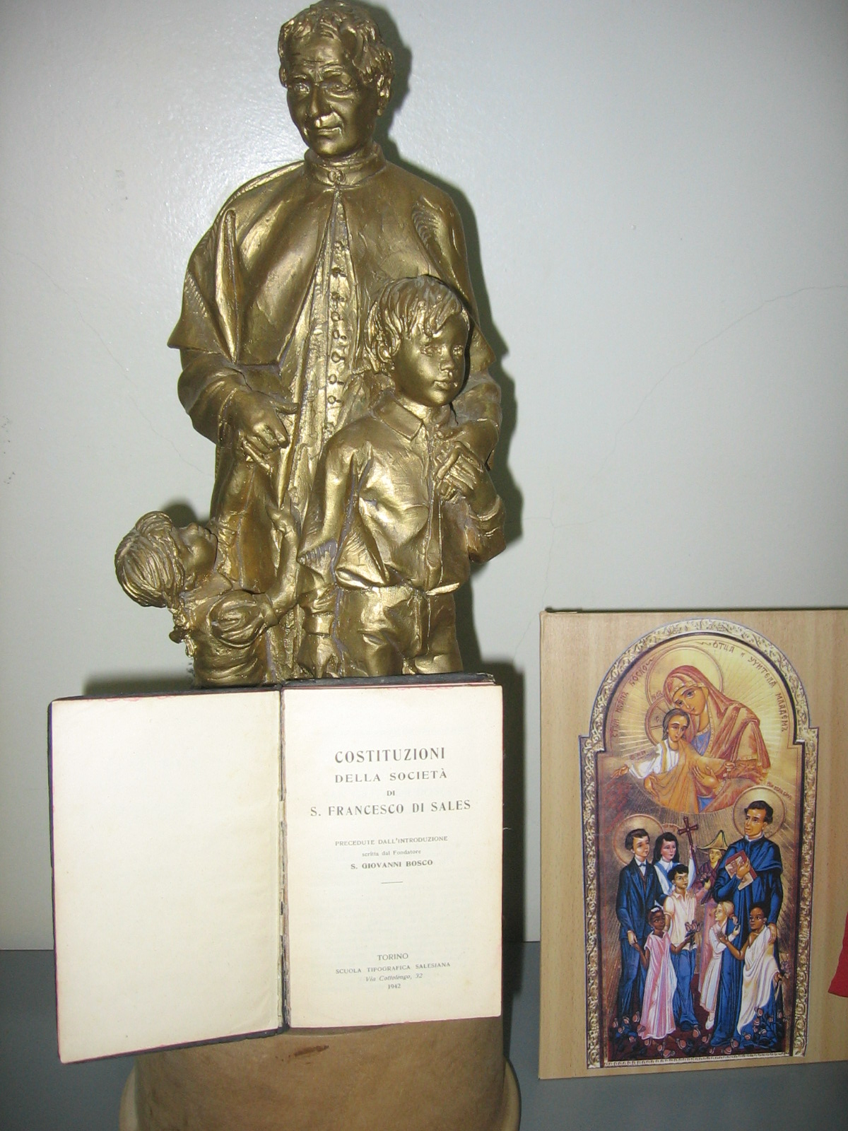 The Constitutions and Rules of the Salesians of Don Bosco, an edition of 1942, at the feet of a Don Bosco statue and besides an Ortodox representation of Don Bosco depinted by Cvetomira Cvetkova ("The Father and the Teacher of the Youth") from Kazanlak, Bulgaria. The statue belongs to a Salesian office in Cambodia.